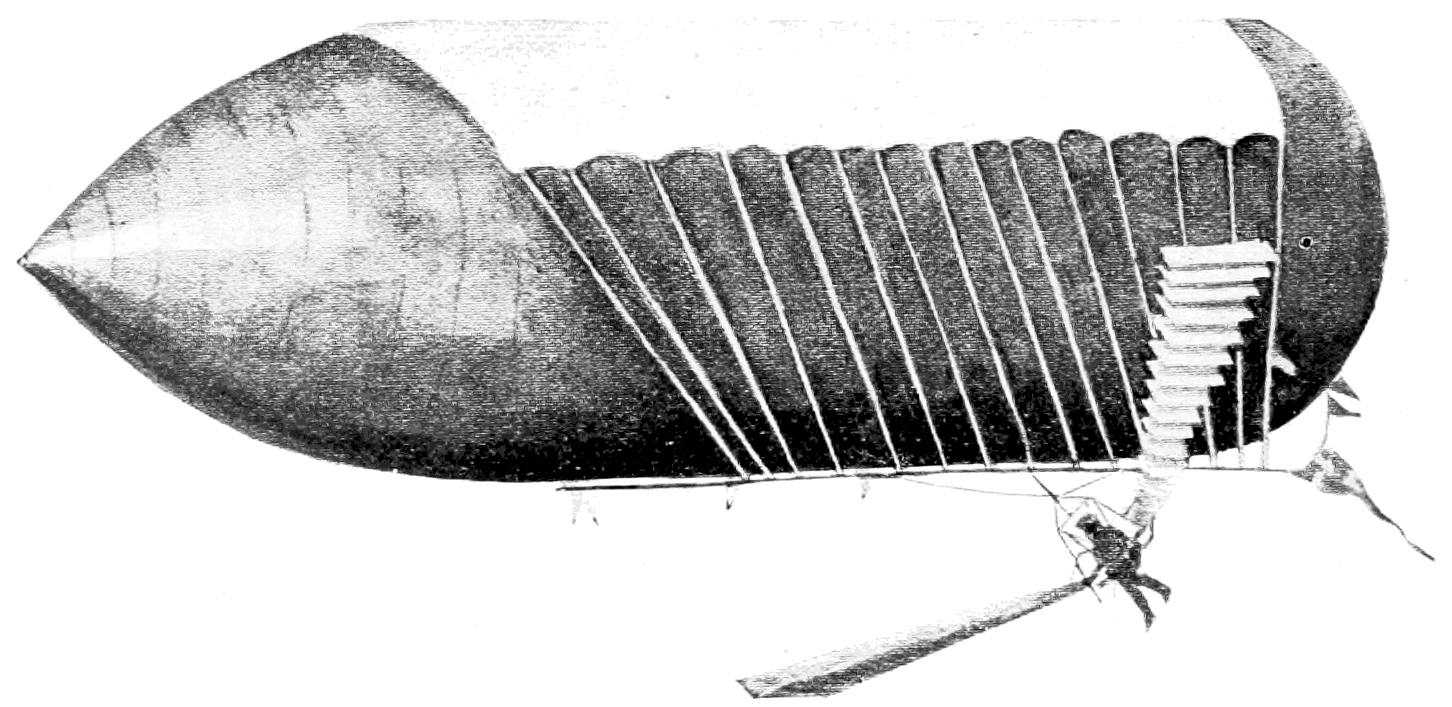 Danilewsky dirigible balloon